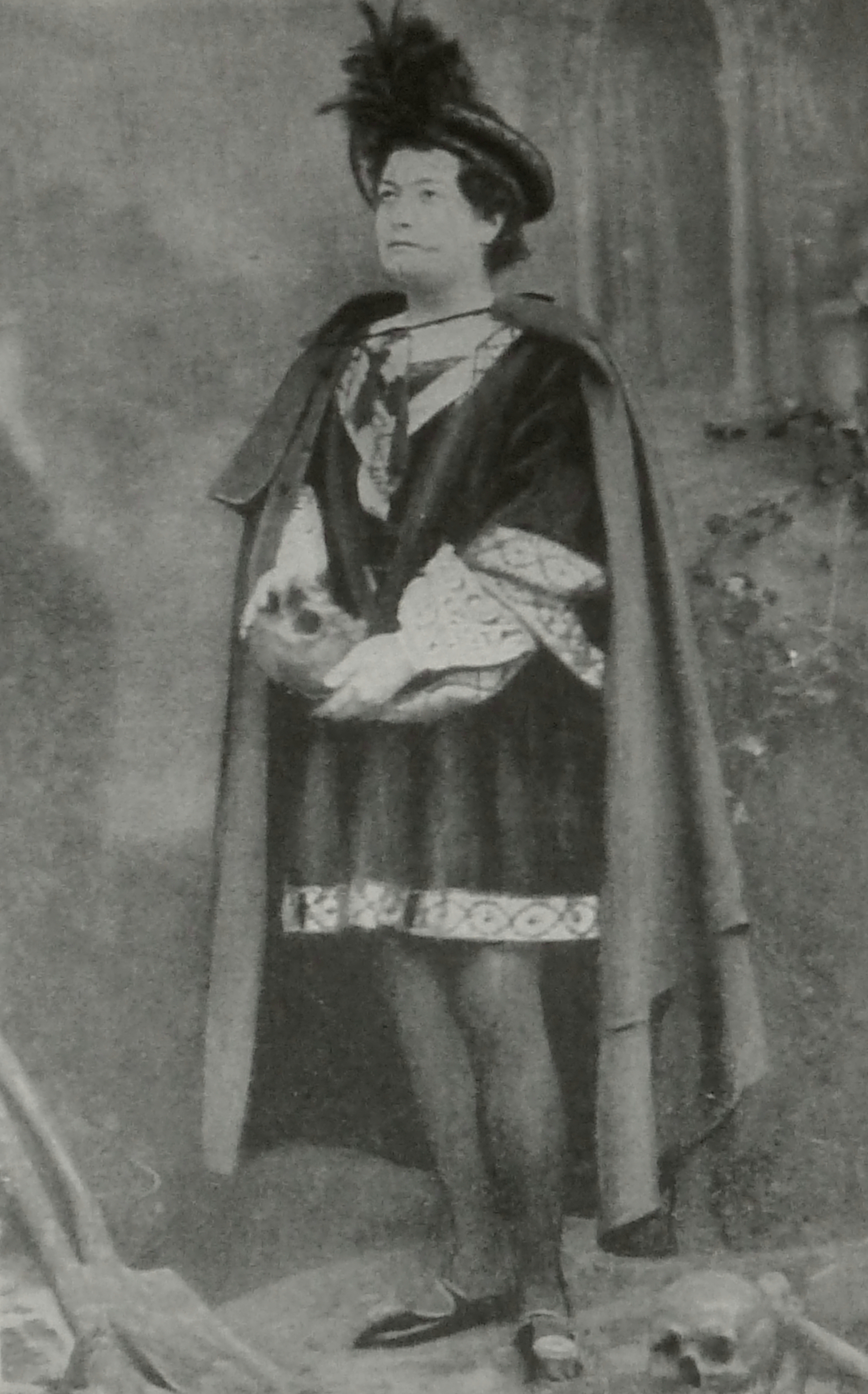 Carte de visite photograph of actress Alice Marriott (1824-1900), as Hamlet. The date below refers to the date of publication of an old photograph; Alice Marriott was 75 years old in 1899.